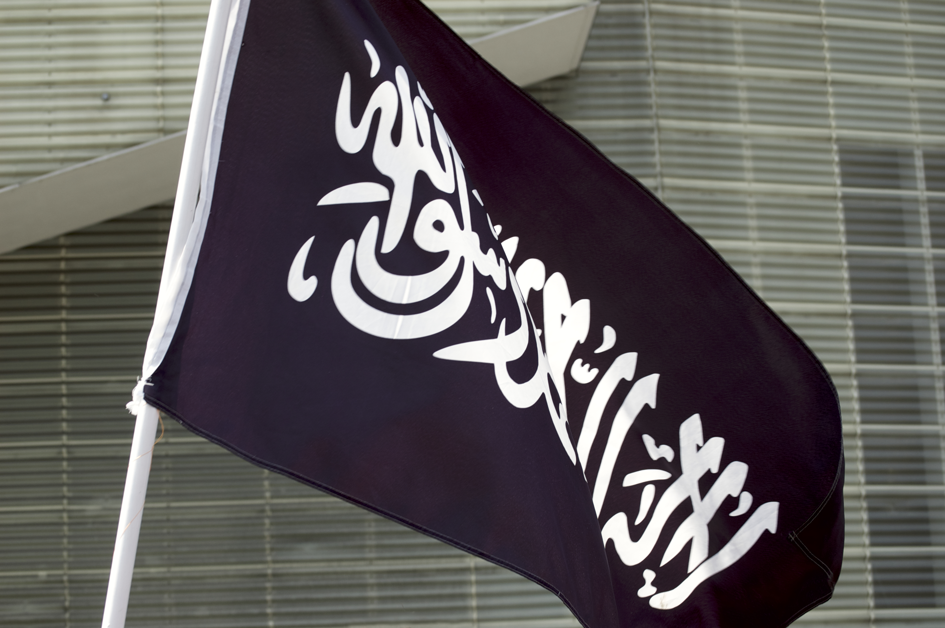 Jihadist black flag, flown at a rally in Rotterdam in July 2014.